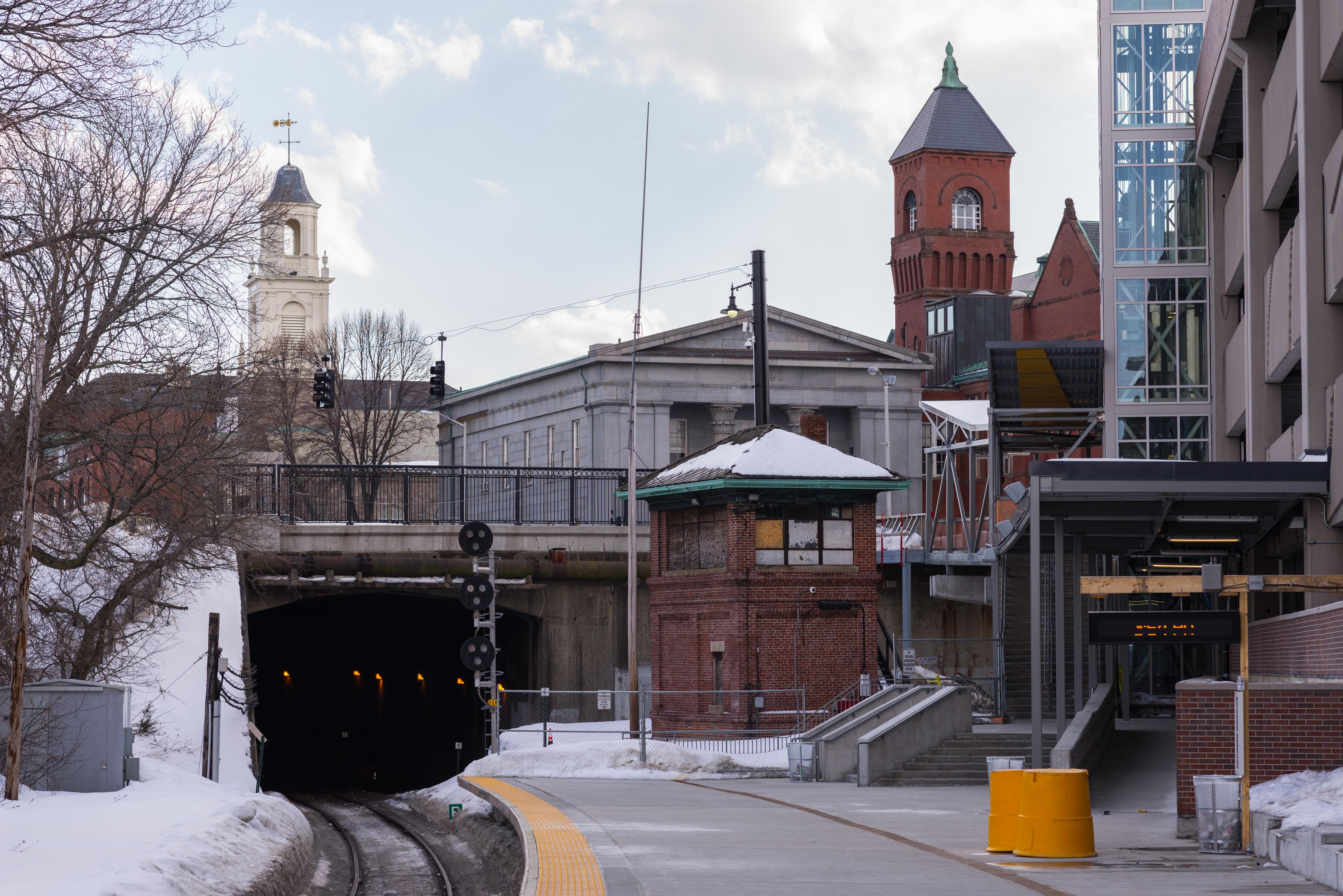 Salem Station on the MBTA's Newburyport-Rockport line, showing new high level platform and garage on the right.